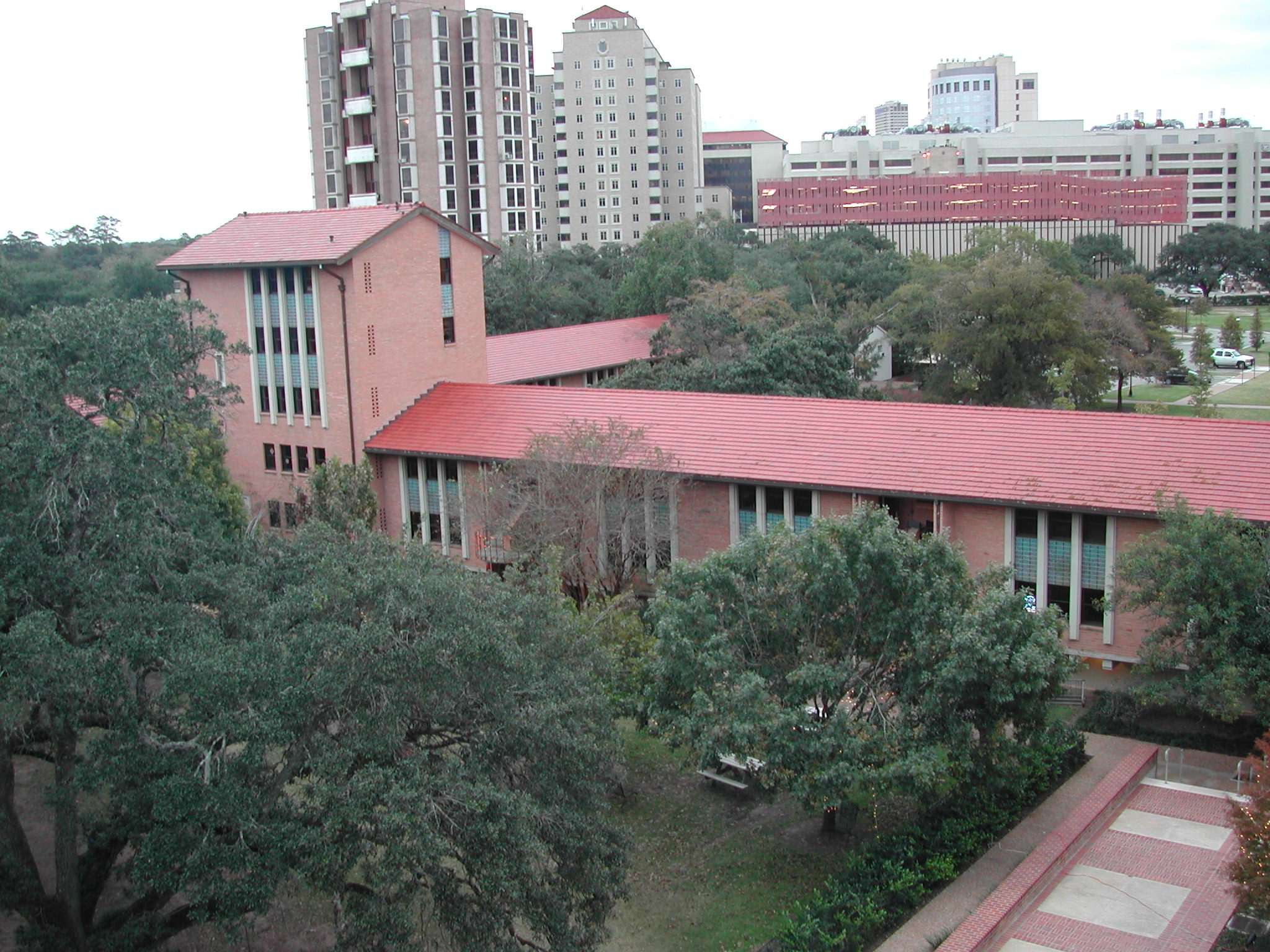 Hanszen College New Section, as seen from the Old Section tower sundeck. Sid Richardson College and some buildings of the Texas Medical Center can be seen in the background and the patio of the Commons is shown in the lower right.